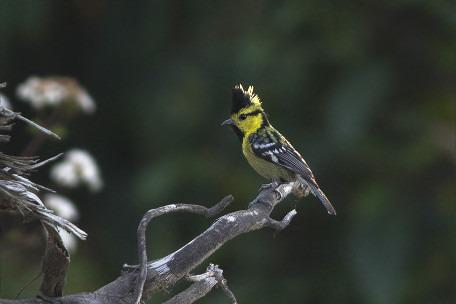 The species Yellow-cheeked Tit had been photographed from Neora Valley National Park in West Bengal, India on 30.04.2016.